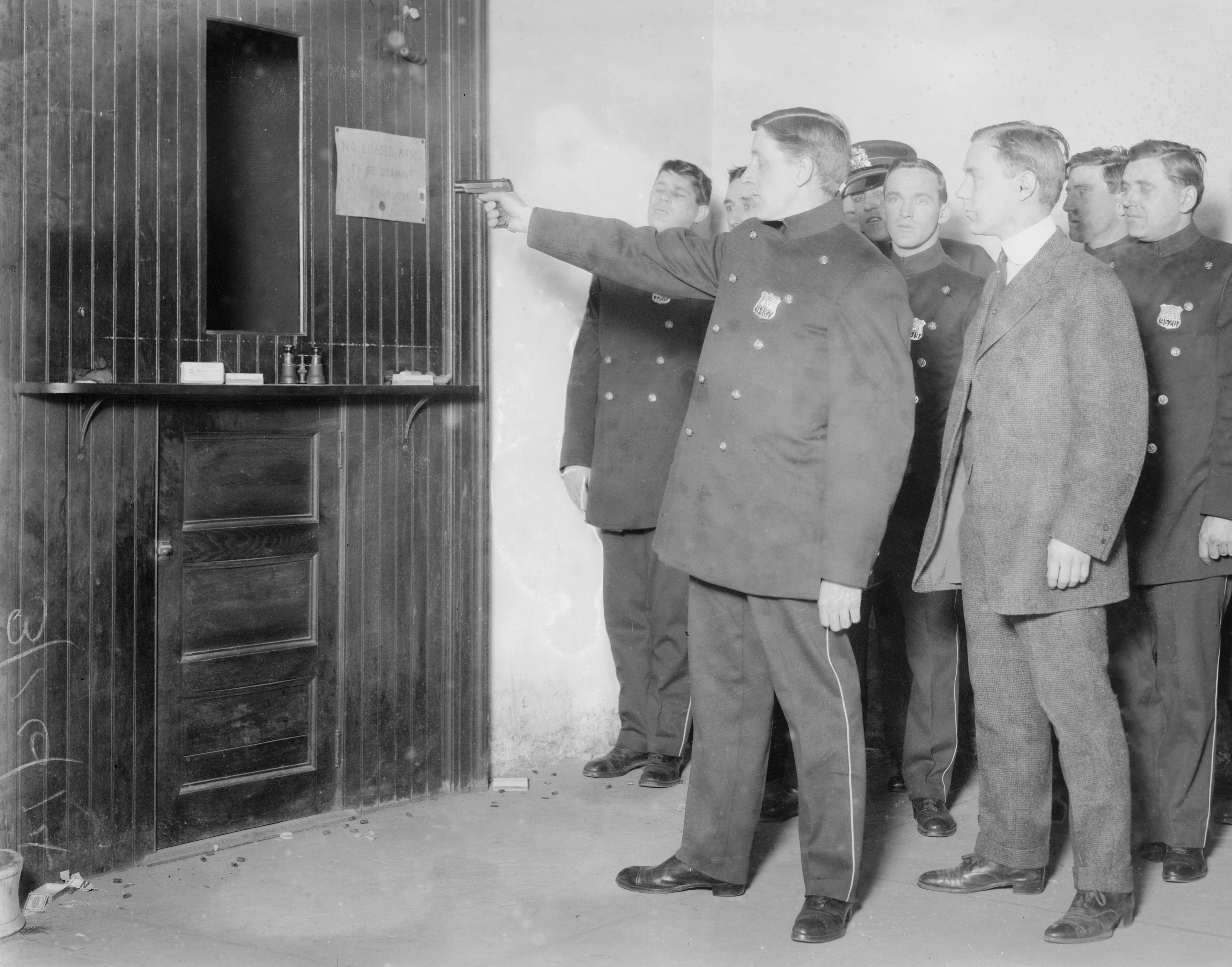 Bain News Service,, publisher. Alfred P. Lane -- teaching police to shoot [between ca. 1910 and ca. 1915] 1 negative : glass ; 5 x 7 in. or smaller. Notes: Title from unverified data provided by the Bain News Service on the negatives or caption cards. Forms part of: George Grantham Bain Collection (Library of Congress). Format: Glass negatives. Repository: Library of Congress, Prints and Photographs Division, Washington, D.C. 20540 USA, General information about the Bain Collection is available at Persistent URL: Call Number: LC-B2- 3010-14